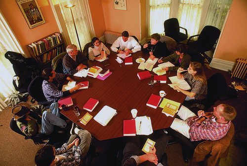 A class of the Integrated Studies 5 senior seminar at Shimer College in 1994, facilitated by Don Moon and Eileen Buchanan. The participants have copies of the New Oxford Annotated Bible (red) and Mary Barnard's translation of Sappho. Published in 1995 Shimer catalog. Shimer College was then located in Waukegan, Illinois, and the room shown was on the first floor of the main classroom building at 438 N. Sheridan Road in Waukegan.